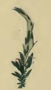 Stainton’s Natural History of the Tineina (1855–1873): Syncopacma albipalpella a sprig of Genista anglica with leaves spun together and discoloured by larva